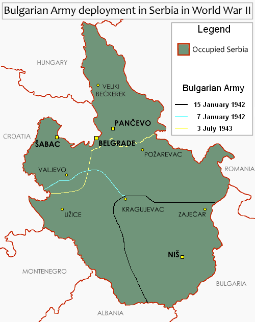 Map showing the extent of the Bulgarian Army occupation within the German-occupied territory of Serbia in World War II. The occupying Bulgarian Army was at all times under the overall control of the German Military Commander in Serbia